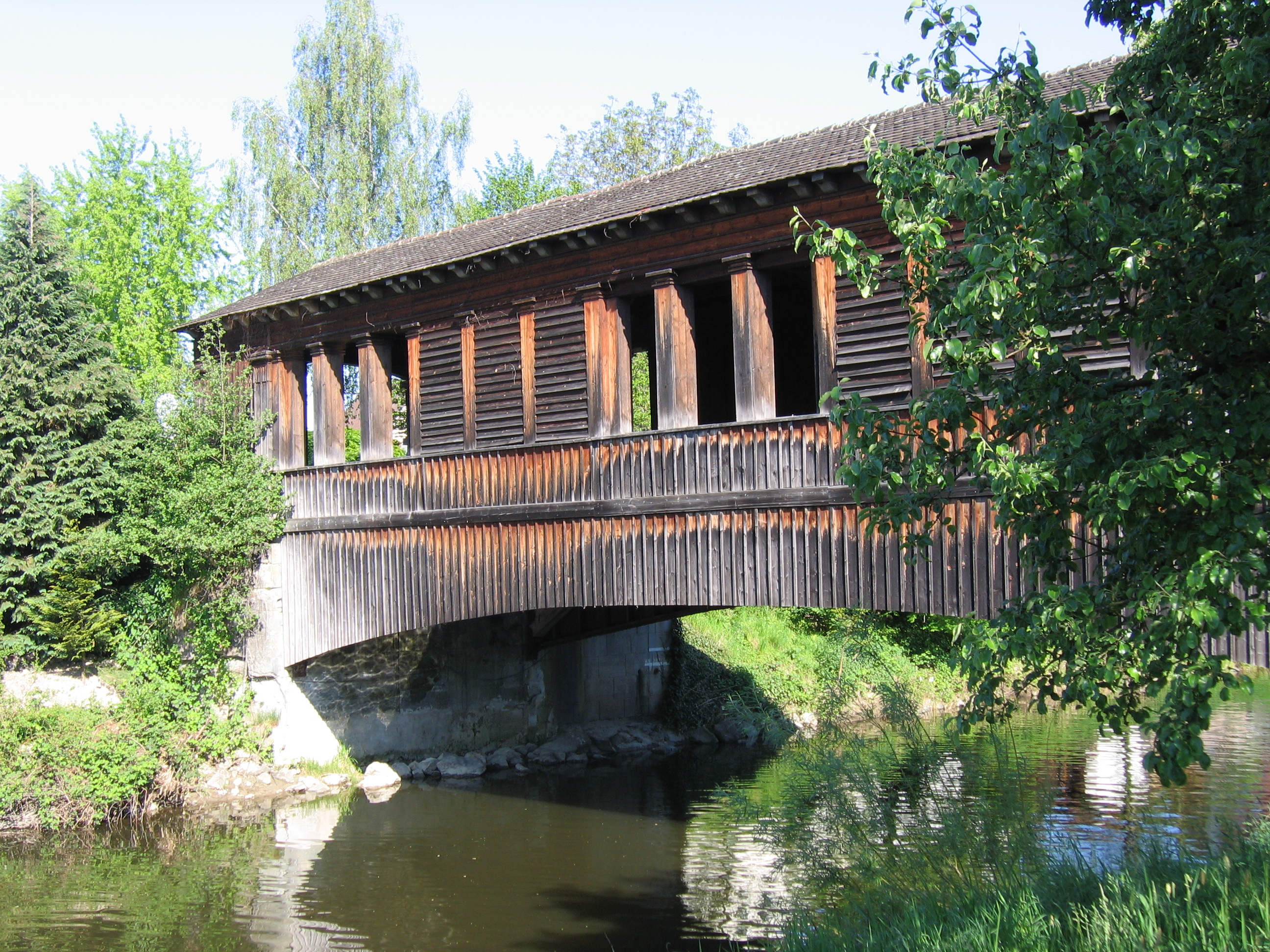 Germany - Baden-Württemberg - Bodenseekreis - Eriskirch: wooden bridge (1828)